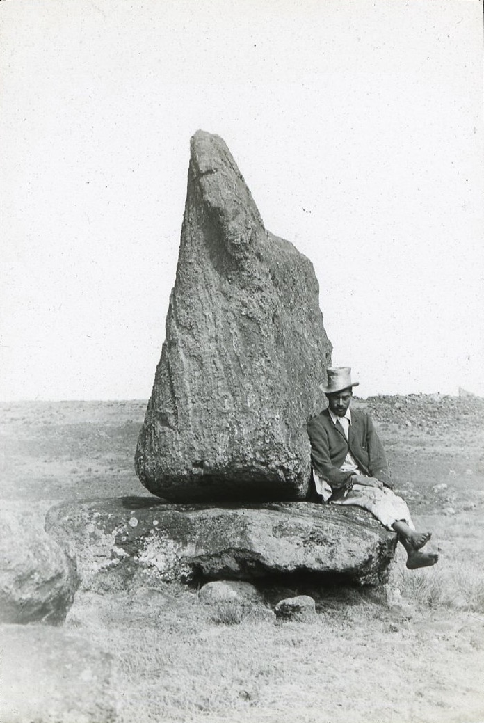 Lantern Slide (black and white); the base of a broken moai (figure carving), upright in the ground, with Juan Tepano sitting beside it, wearing a top hat; Ahu Tongariki, Easter Island. Photographic process